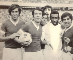 Pele and Pas FC players at Azadi Stadium